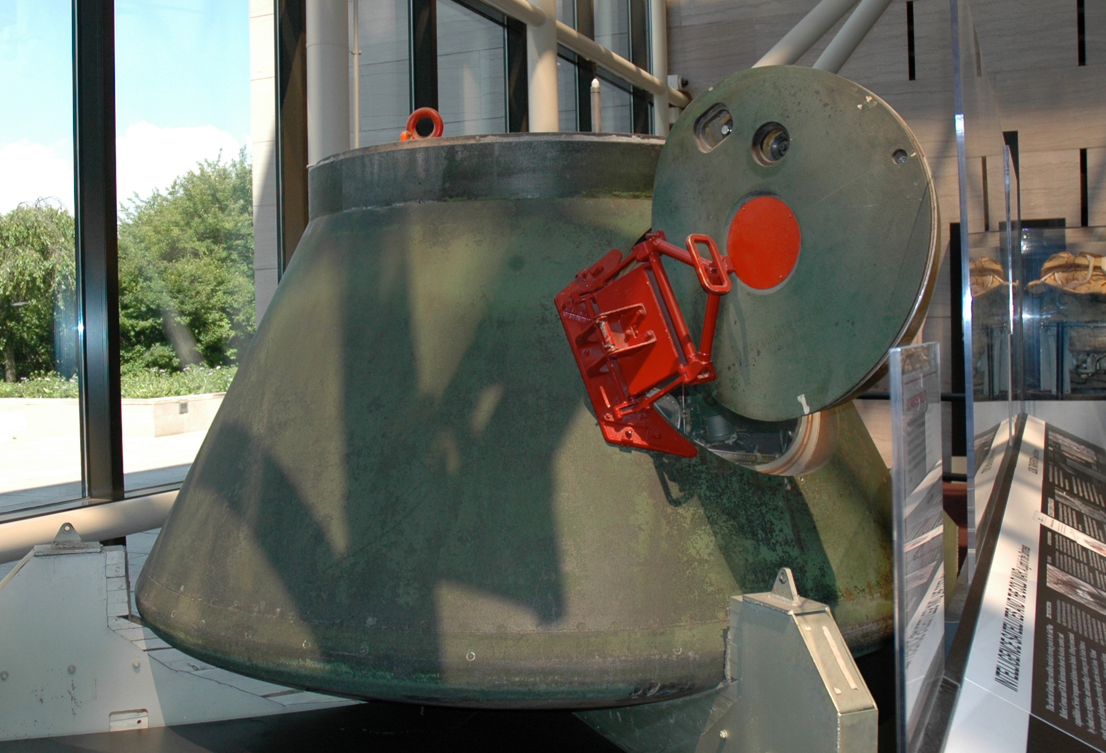 Re-entry capsule of Cosmos-1443 spacecraft, displayed at National Air and Space Museum, Washington D.C.